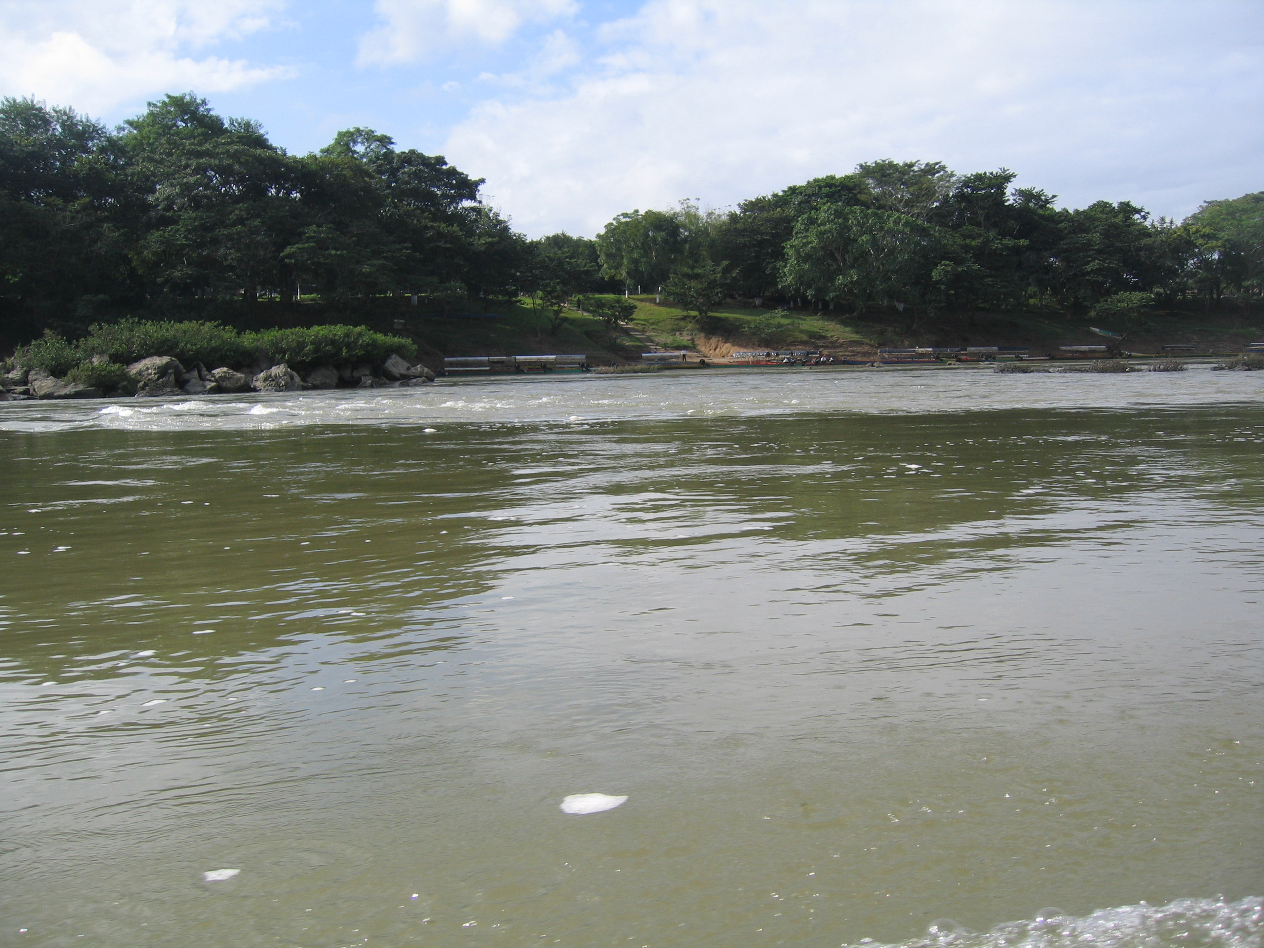 Usumacinta Border between Mexico and Guatemala own work Dez 2006